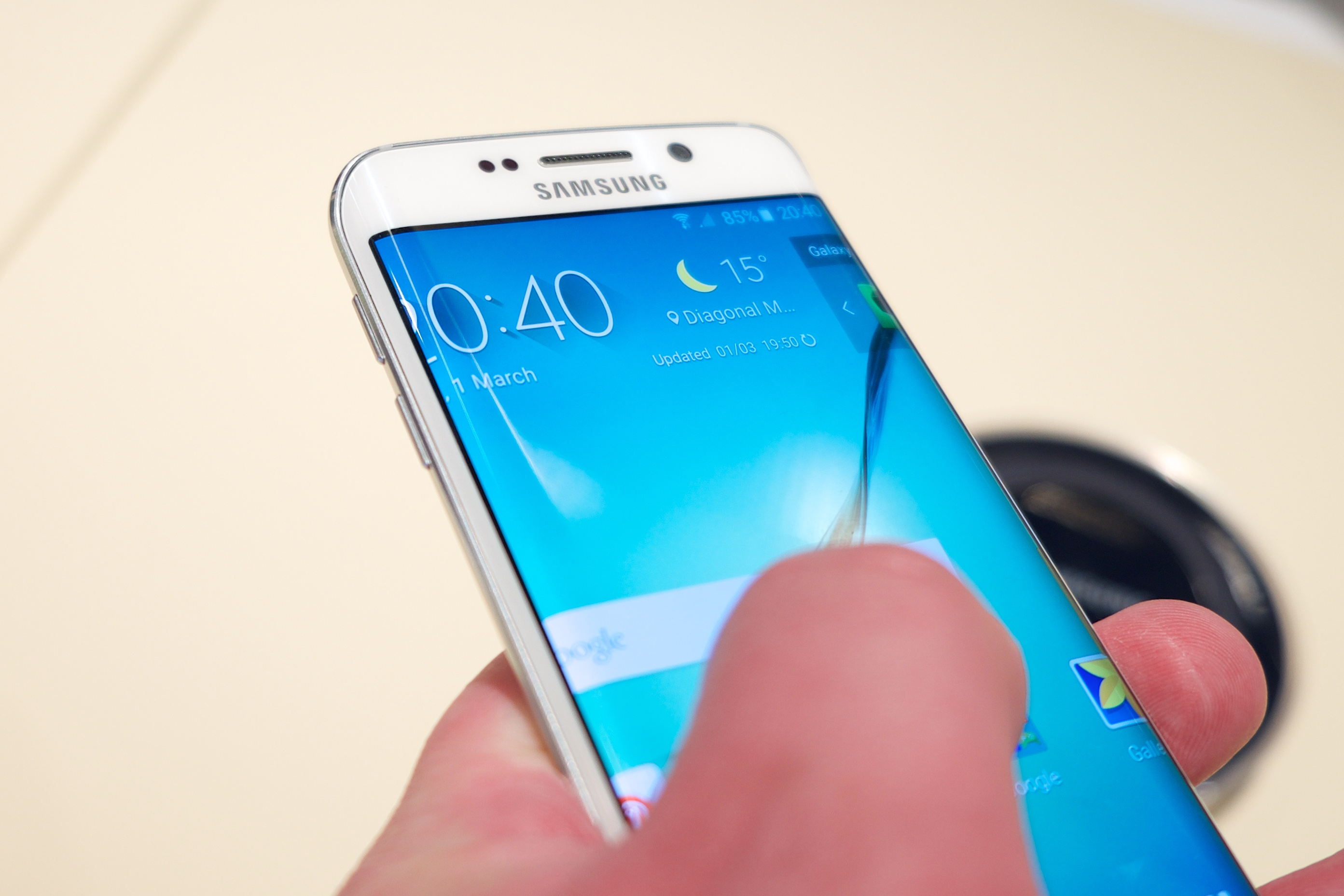 Picture of the Galaxy S6 Edge from the reveal event